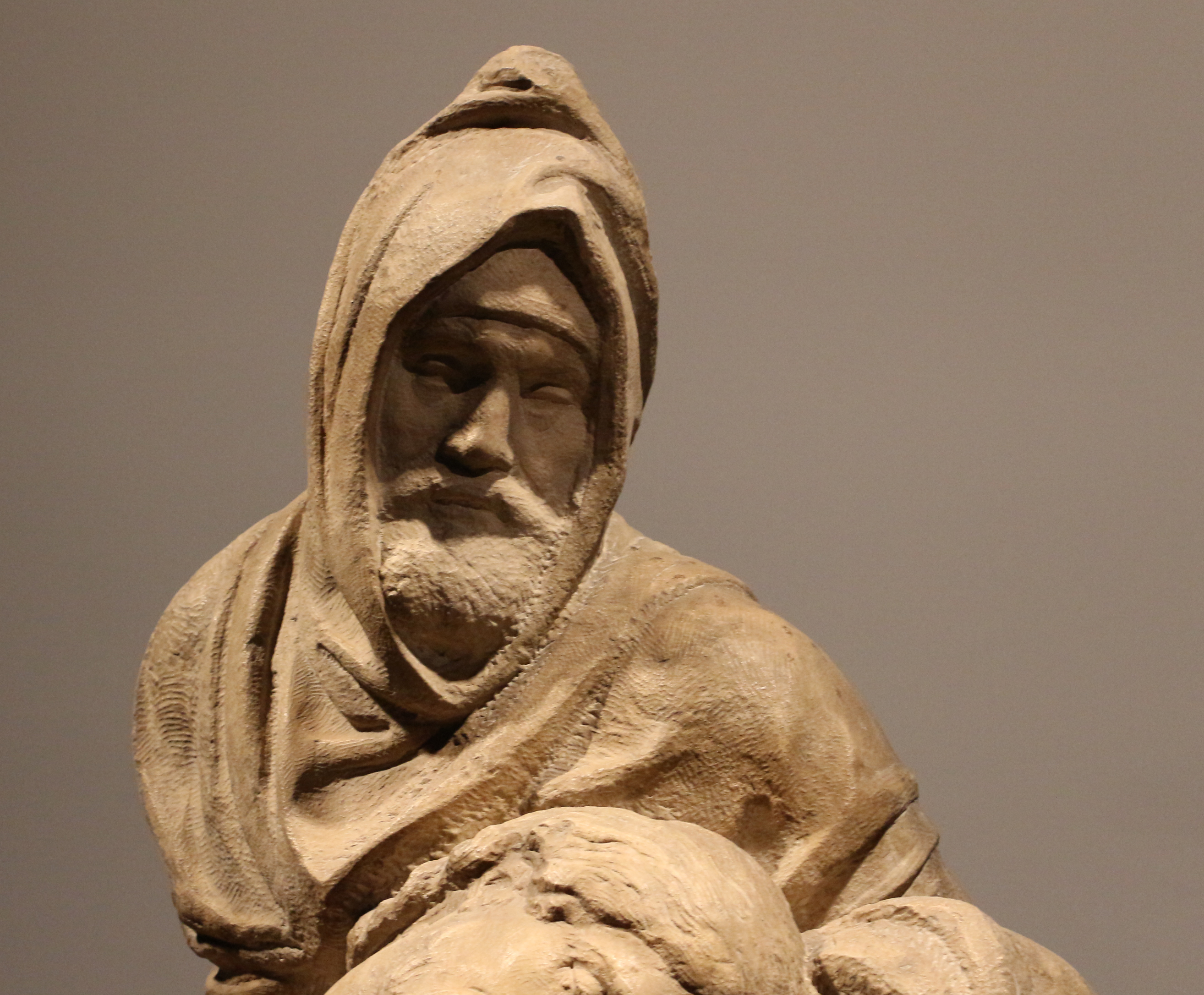 Pietà dell'Opera del Duomo